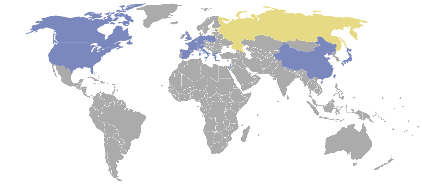 Countries participating in the competition for the Golden Lion 2011 (incl. coproduction countries)